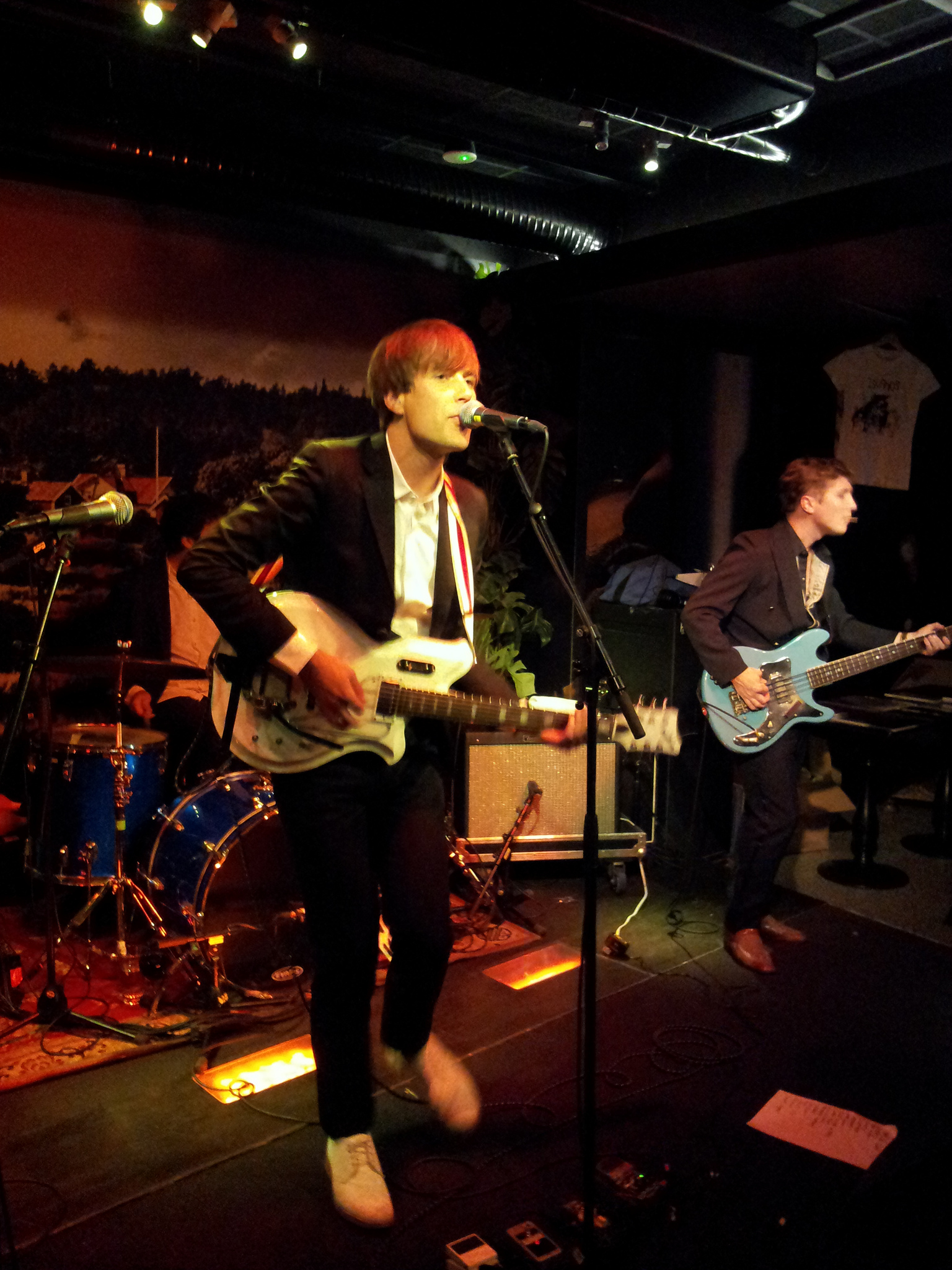 Islands on Scandic Malmen, Stockholm.